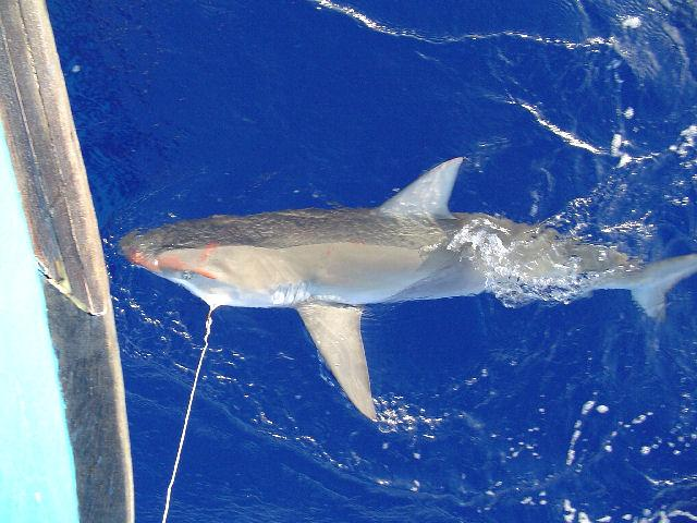 Galapagos shark (Carcharhinus galapagensis) hooked on a longline off Hawaii.